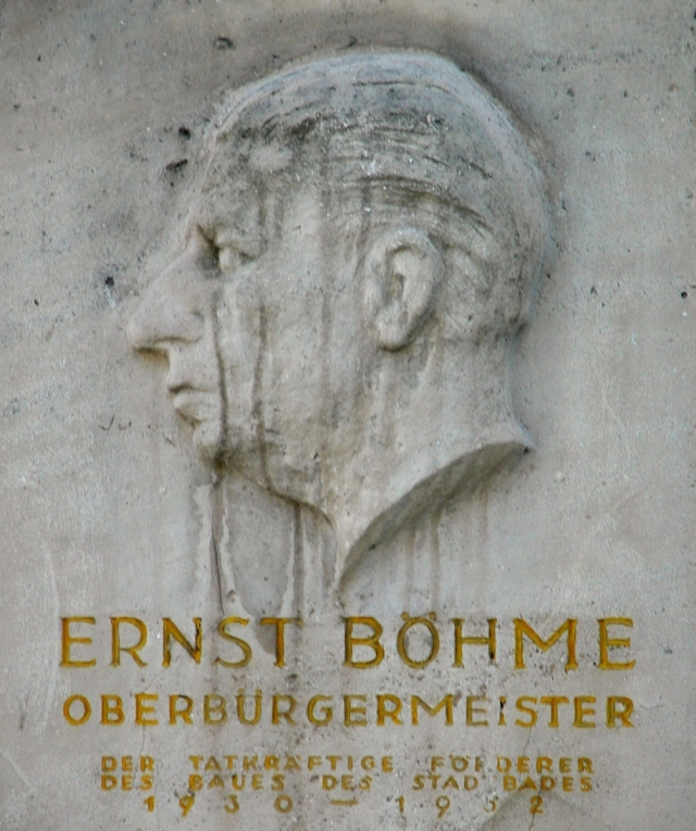 Brunswick, Germany: Monument of Ernst Böhme.